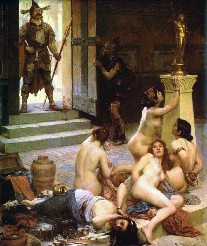 "Brennus and His Share of the Spoils", also known as: "Spoils of the Battle"